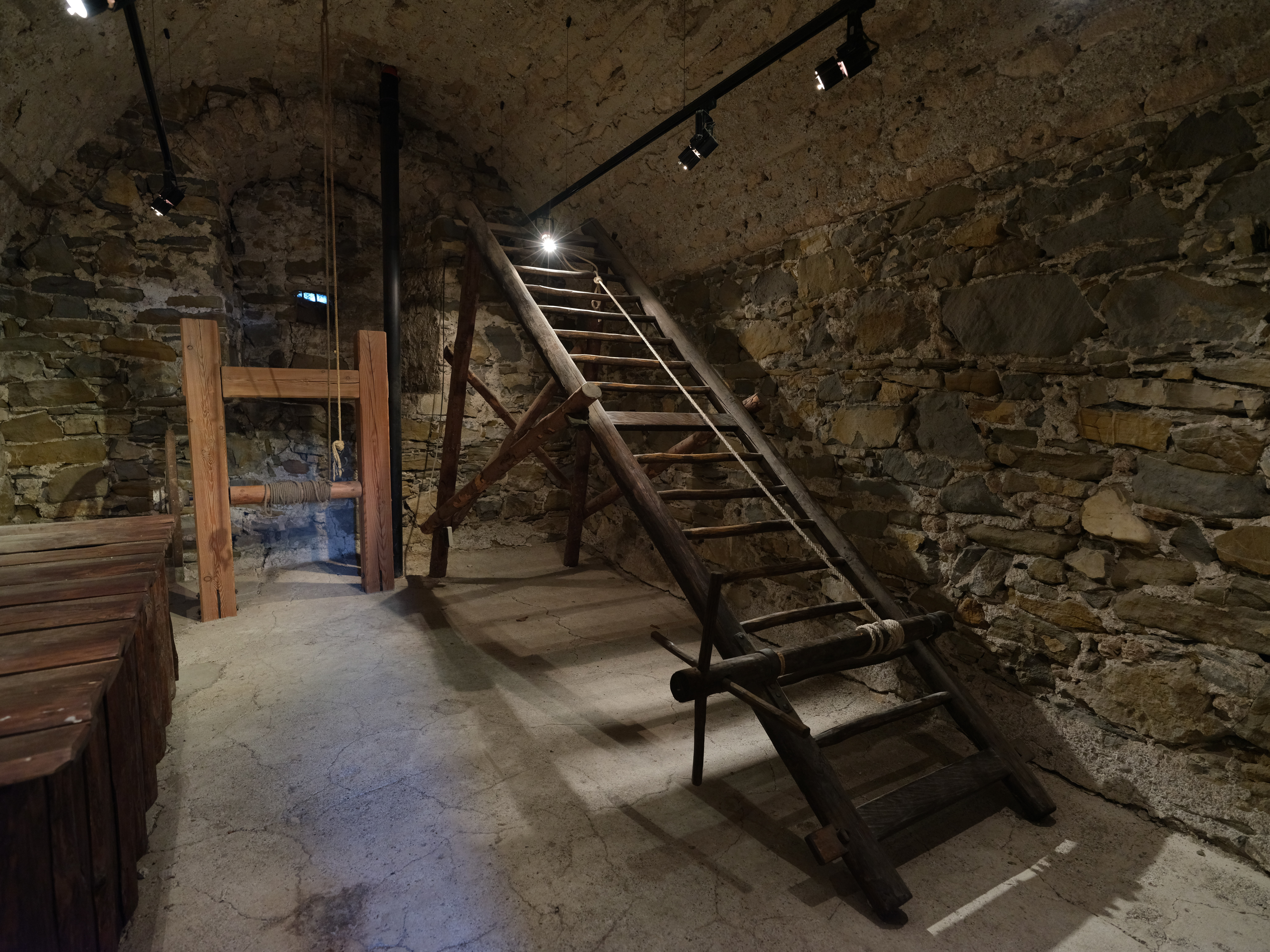 Torture rack in the tower of Rothschildschloss castle, Waidhofen an der Ybbs, Austria.